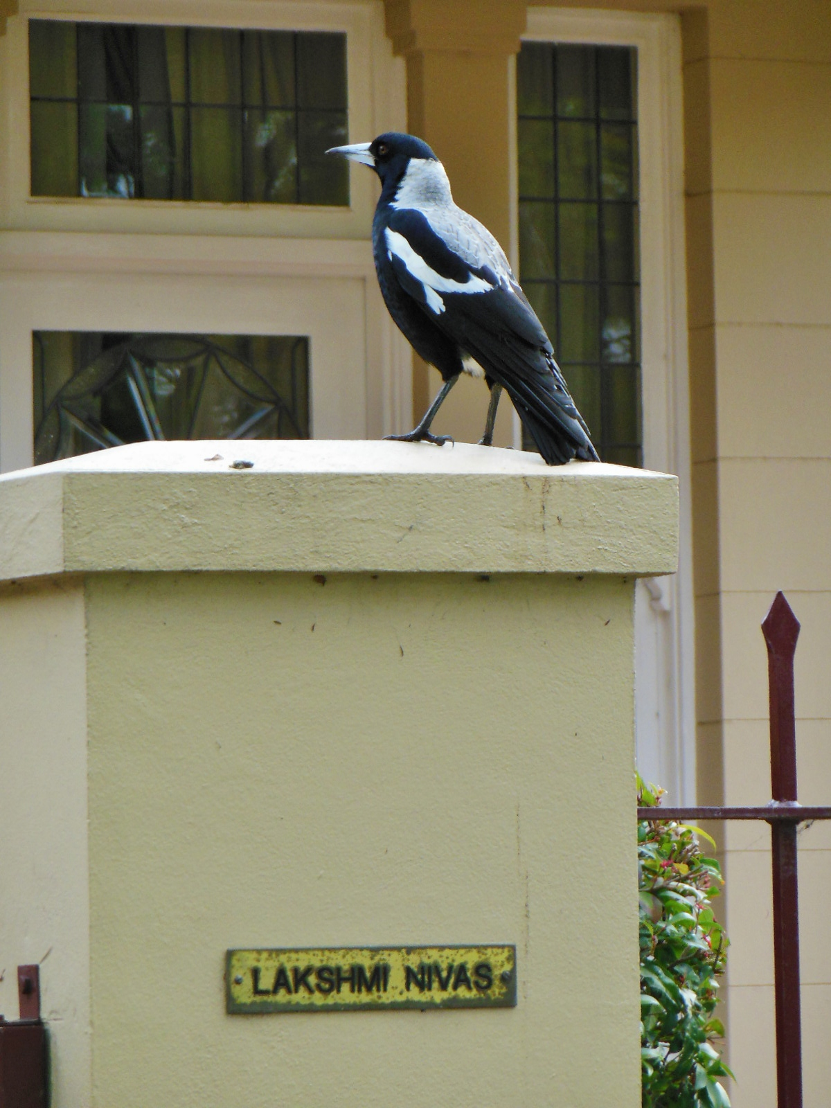 A Magpie Called Lakshmi